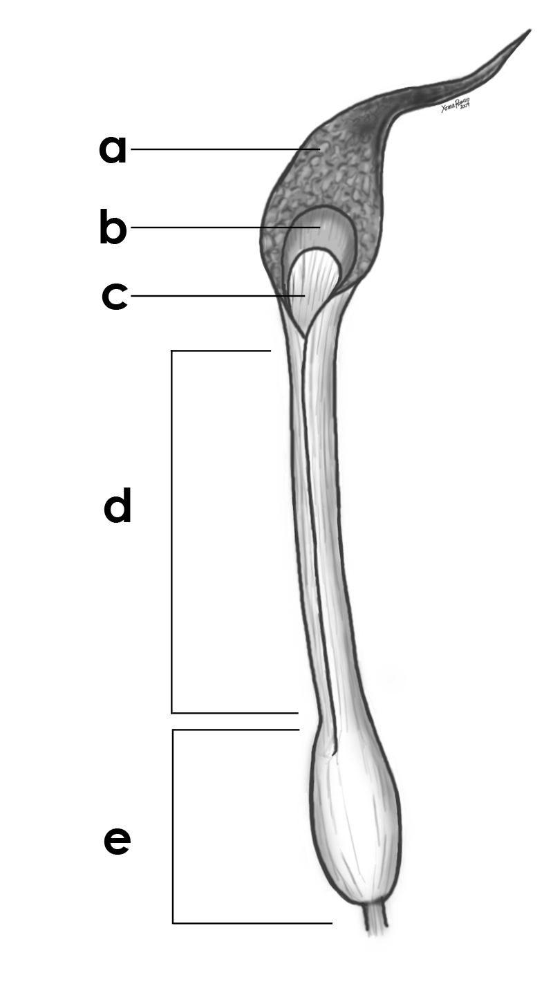 External structures of a spathe of a specimen in the Cryptocoryne genus